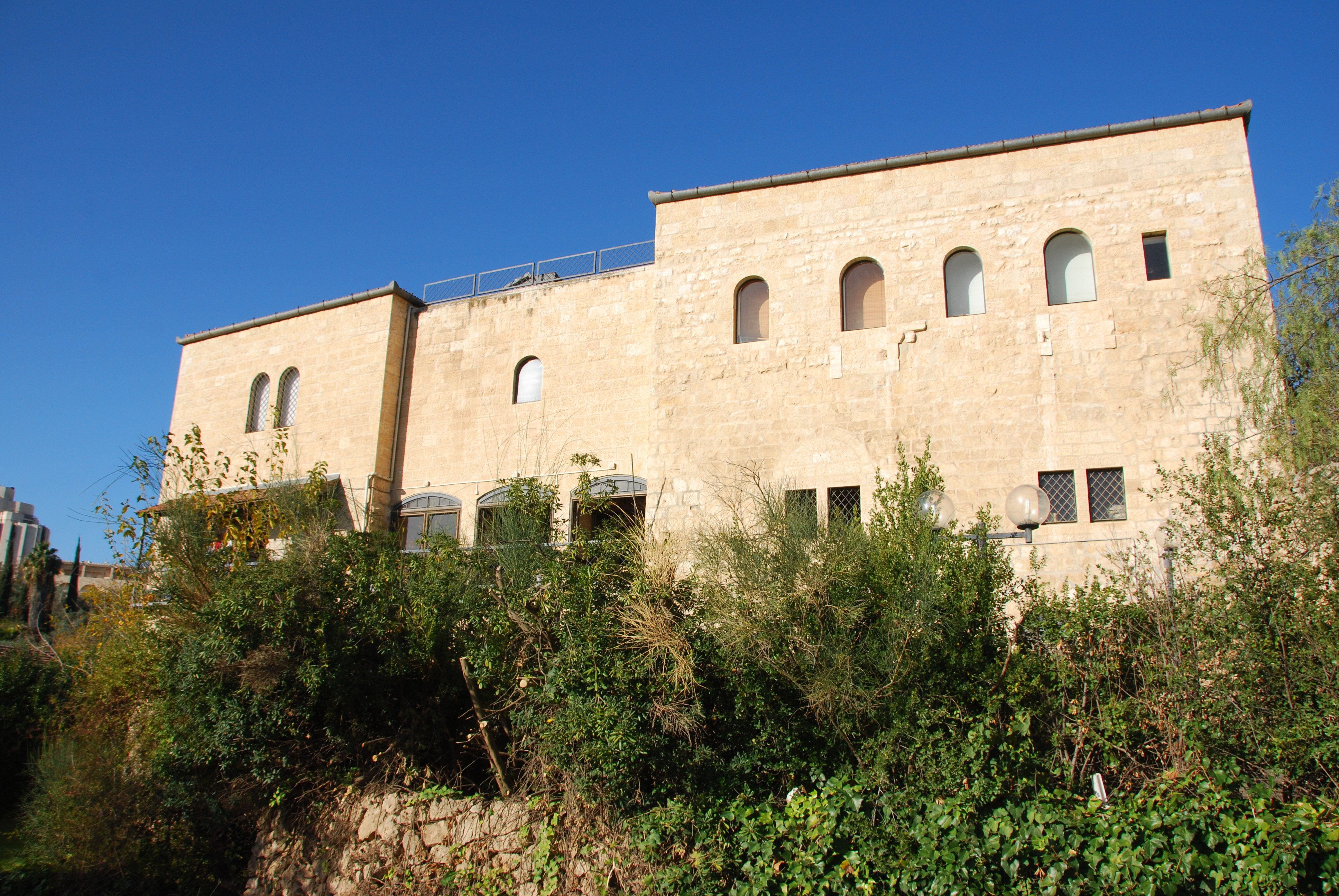 confederation house. jerusalem, israel.